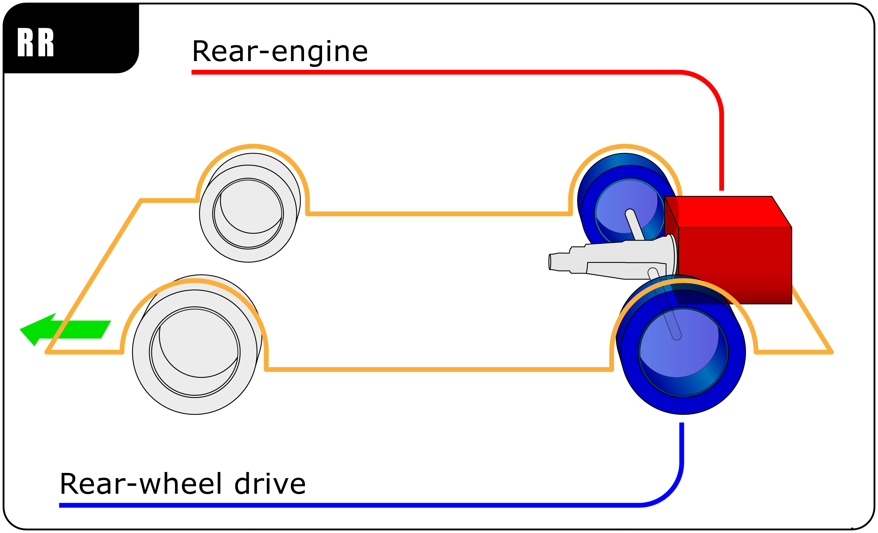 Vehicle engine and drive wheel placement diagrams